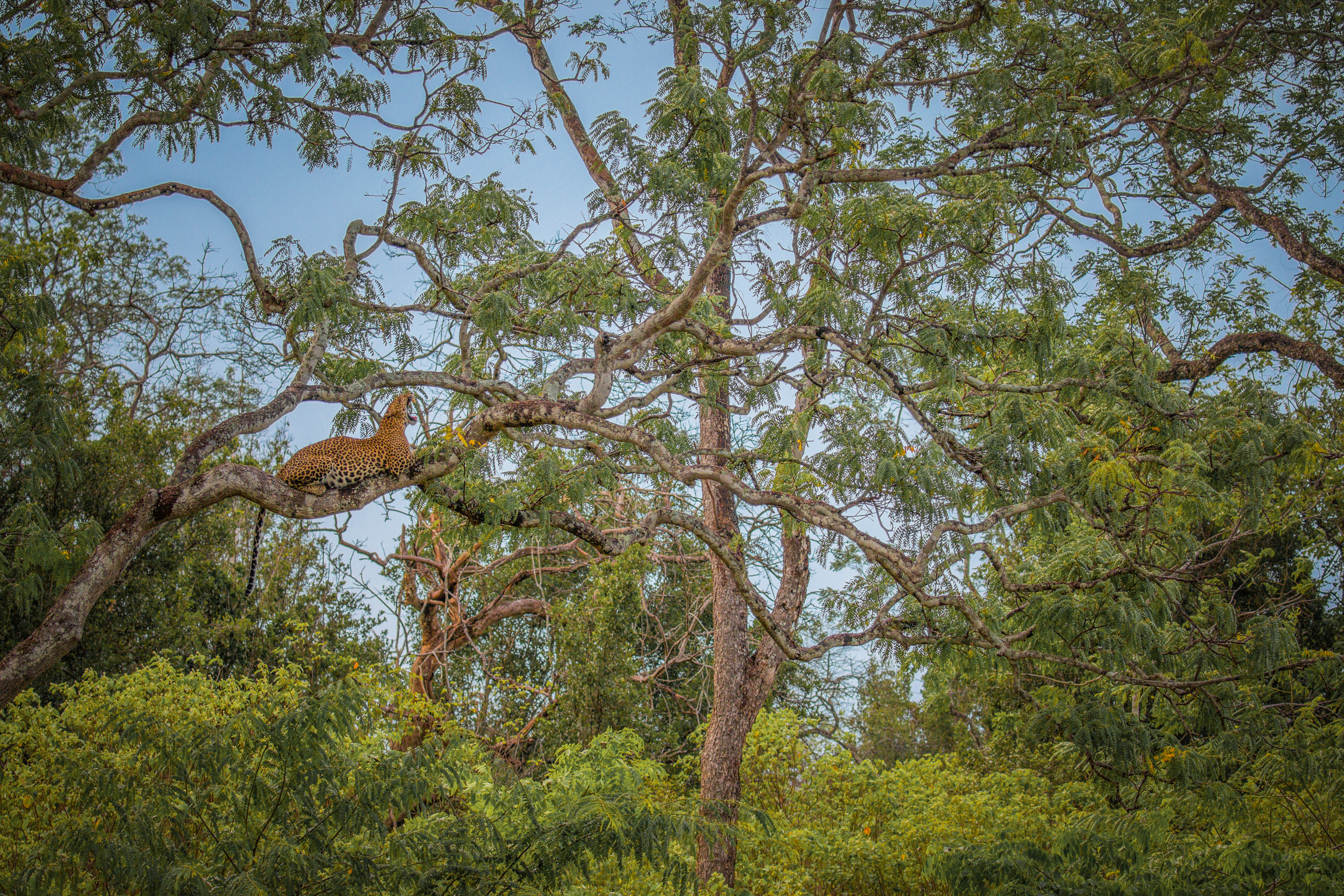 Sri Lankan leopard (Panthera pardus kotiya) at Lunugamwehera National Park – Sri Lanka.